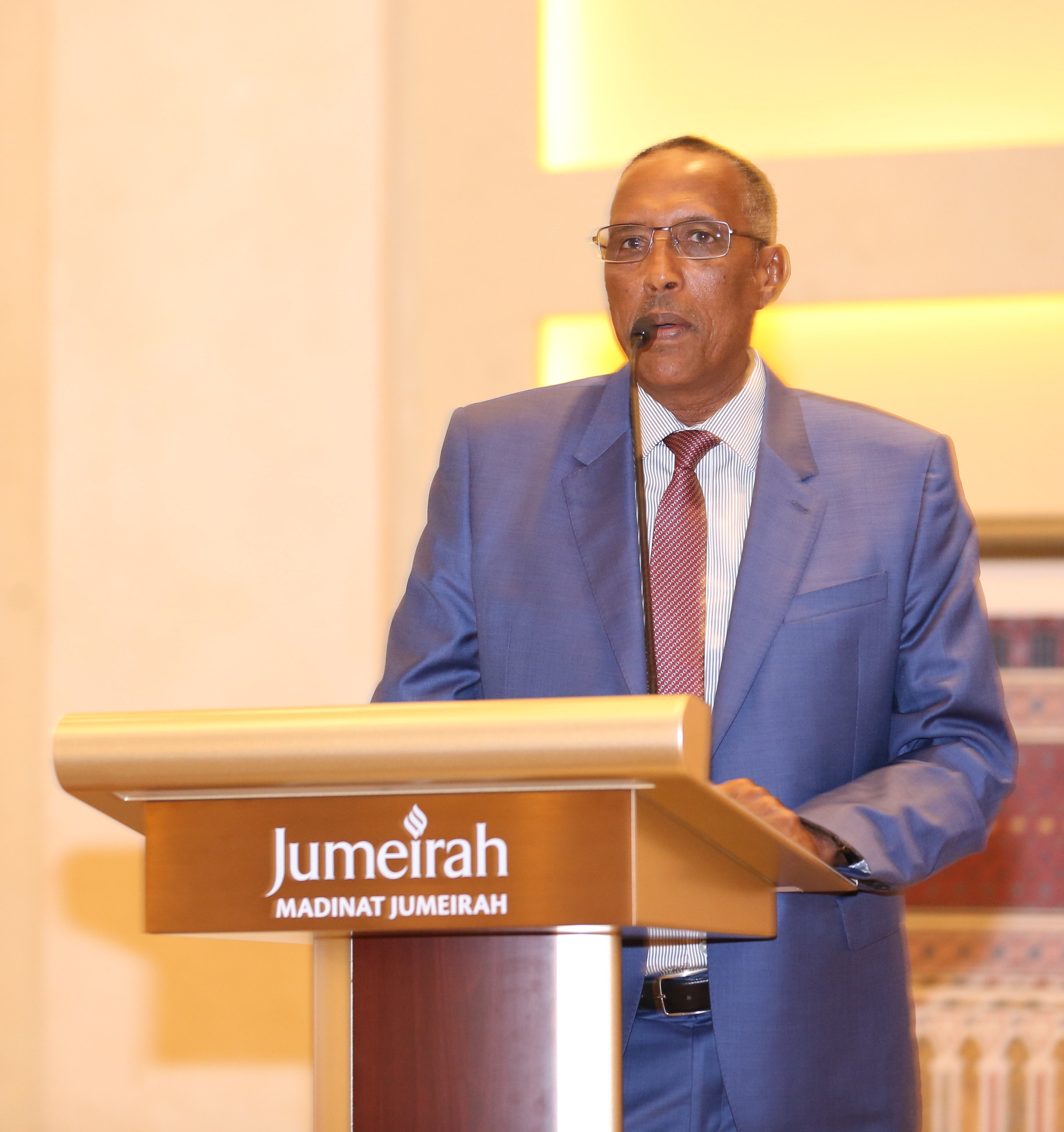 Musa Behi